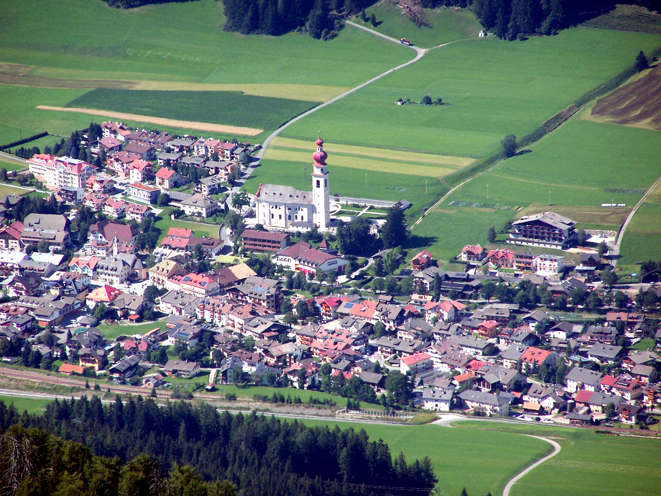 view of Niederdorf (Dolomites) as seen from Sarlkofel mountain